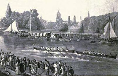 The (cropped) picture shows part of the earliest-known scene of a race between two eight-oared boats at Oxford University. It has been suggested that the picture shows the "disputed bump" of 1822 in a race between Jesus College and Brasenose College, but this is uncertain. See Sherwood's book at page 10 for more information; also Jesus College Boat Club